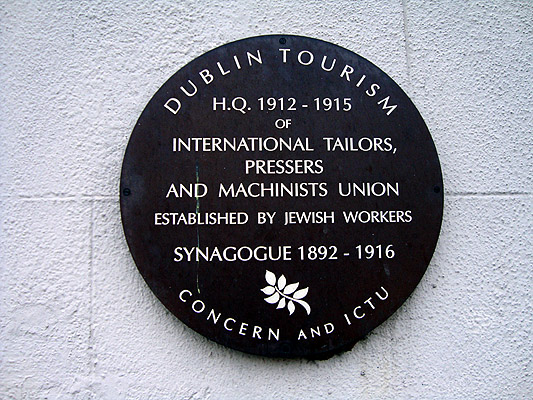 Photograph of plaque at house, 52 Camden Street, Dublin, Ireland. Taken by me 20 January 2009.